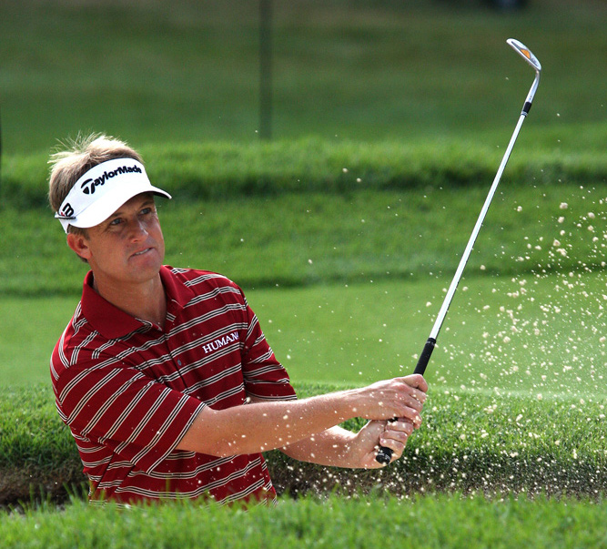 David Toms playing a bunker shot during a practice round for the 2008 PGA Championship at Oakland Hills Country Club in Bloomfield Hills, Michigan.